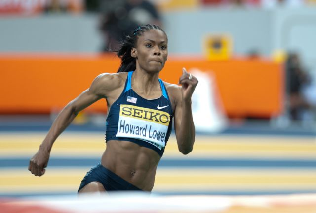 Chaunte Howard Lowe during Doha 2010 World Indoor Championships